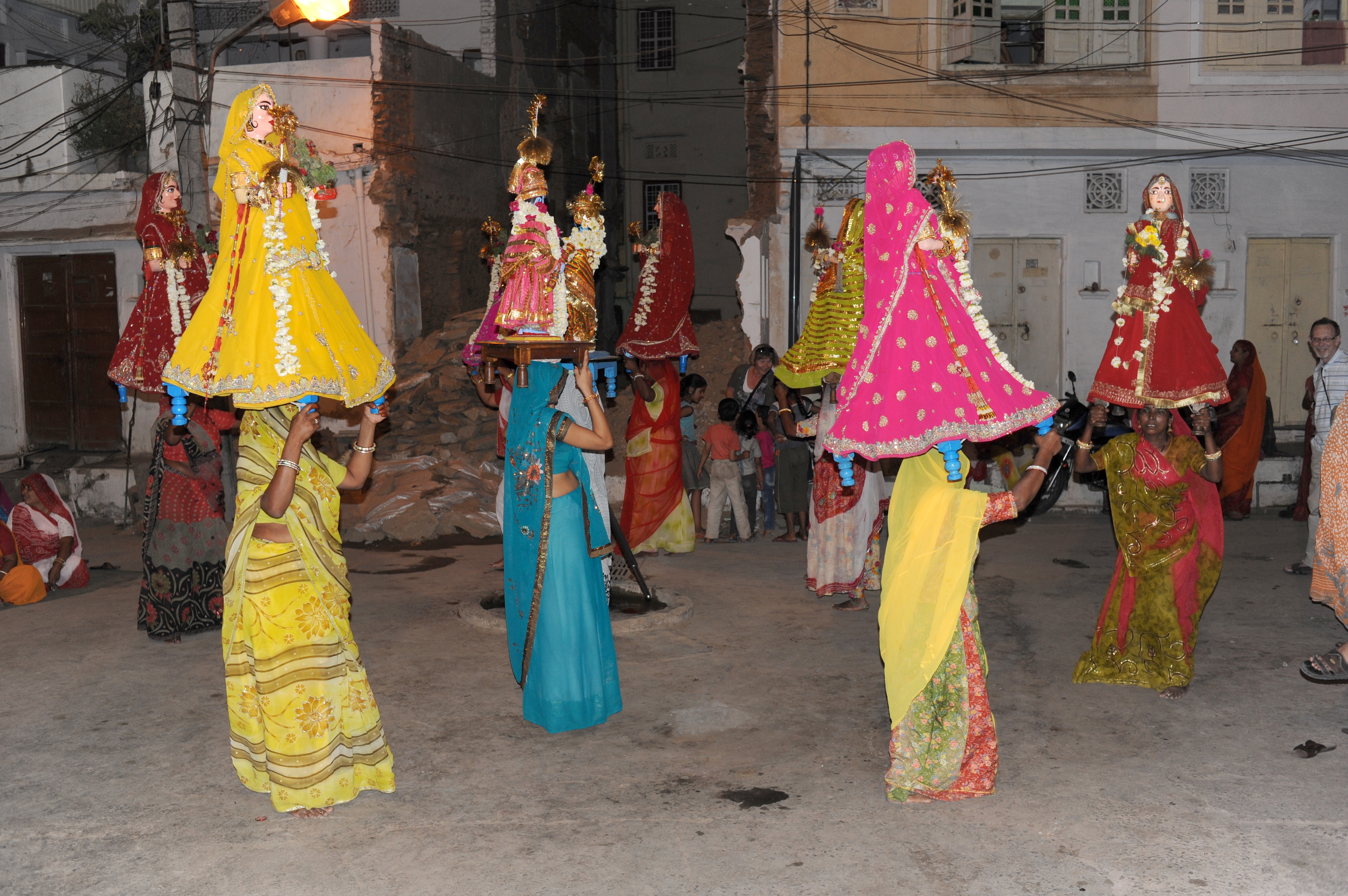 Gangaur (Mewar) Festival, Udaipur, India.